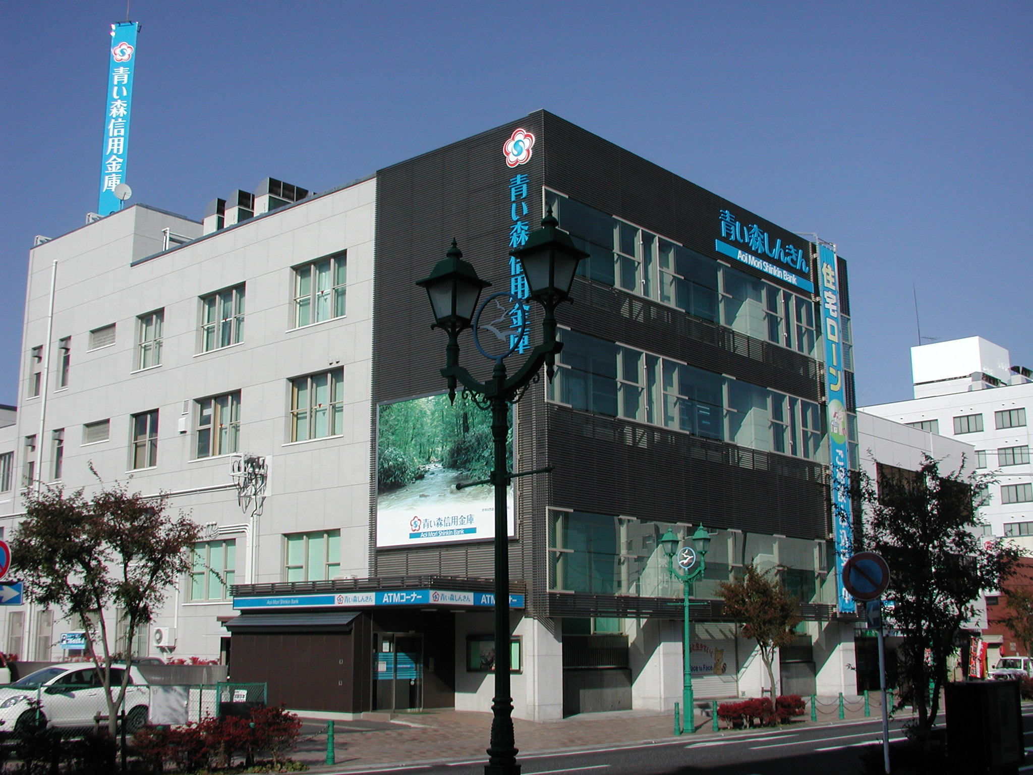 The Aoi Mori Shinkin Bank Head shops